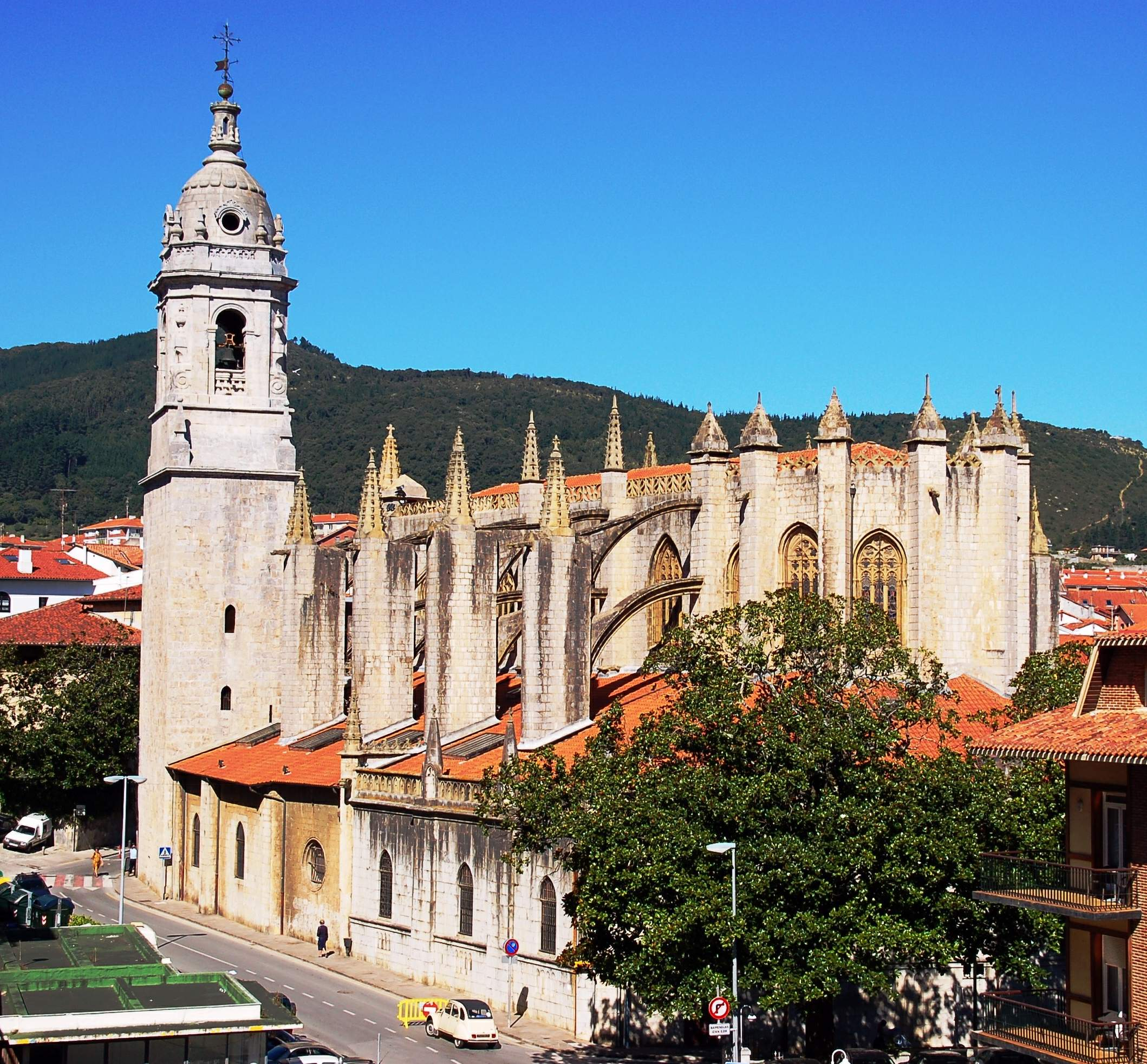 Cropped version of the file Hegoalde30.jpg, uploaded by user Lumentzaspi on 05/09/2007